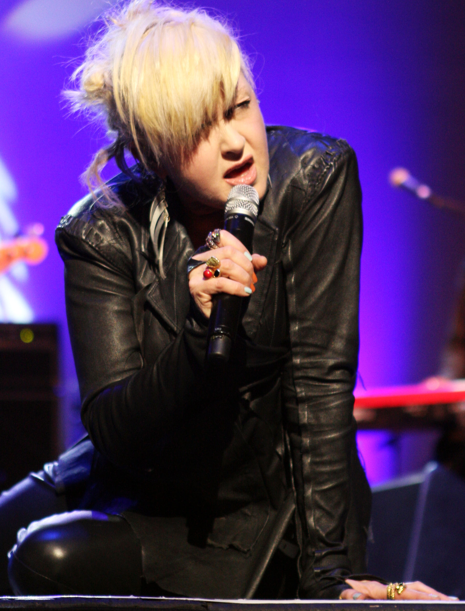 Cyndi Lauper in concert at Australia. 2011. Memphis Blues Tour.